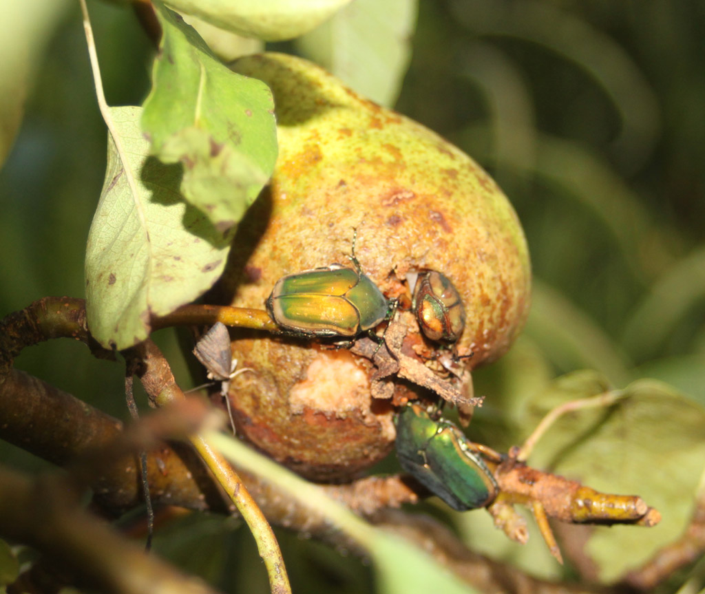 Fruit damage caused by June beetle (Cotinis nitida)